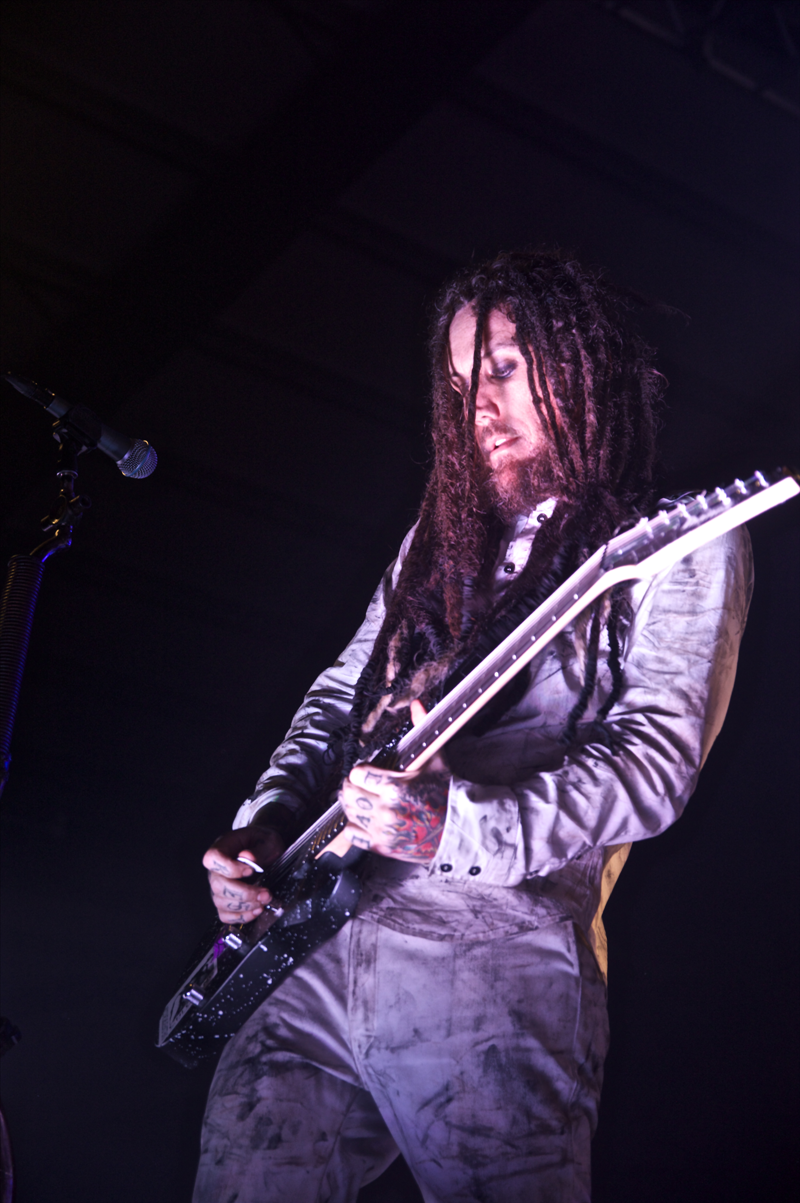 Brian performing with Korn at the 1st show of the reunion tour on 15 May 2013, Belle Vernon, PA